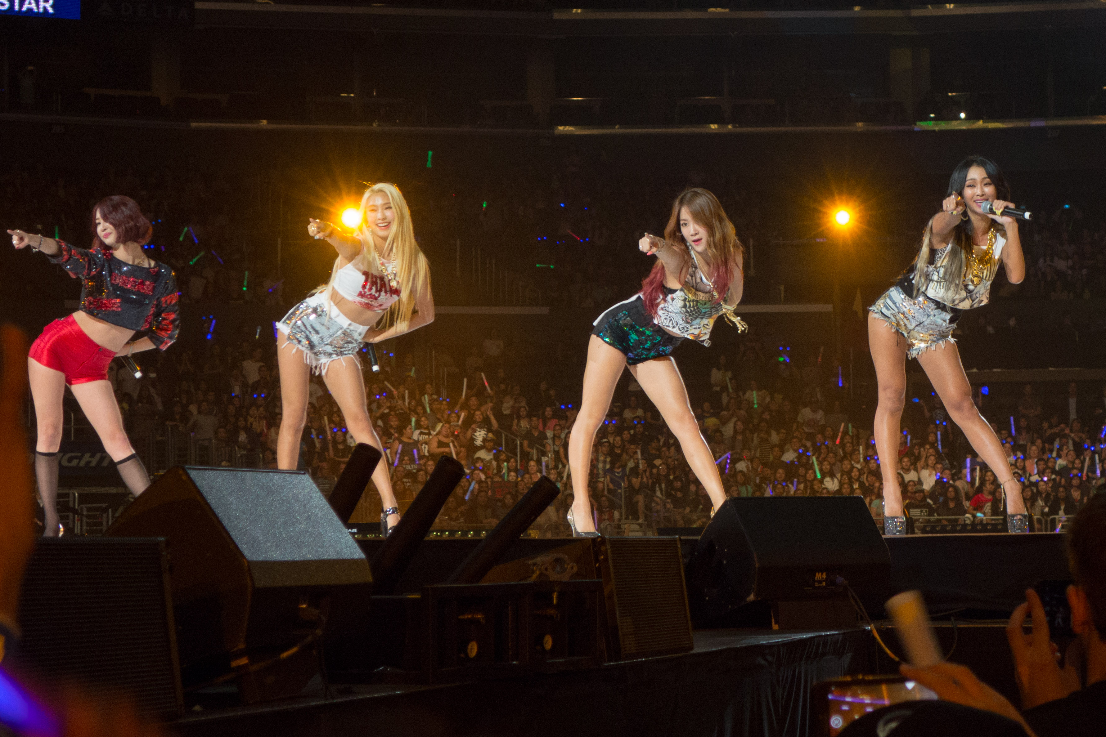 KCON 2015, Sistar on stage.